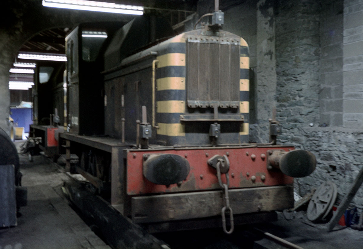 01002 and 01001 (withdrawn, at the rear) inside the shed at Holyhead Breakwater on 19 August 1980